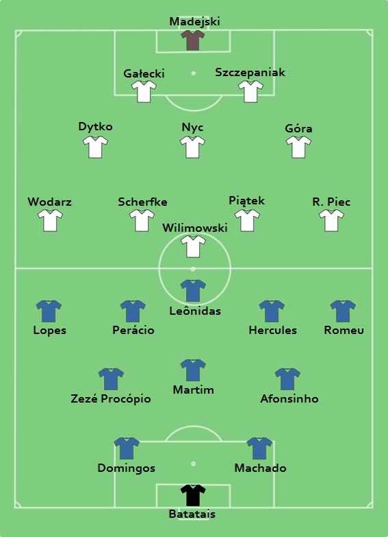 Players at World Cup 1938 first round kick off Brazil-Poland.